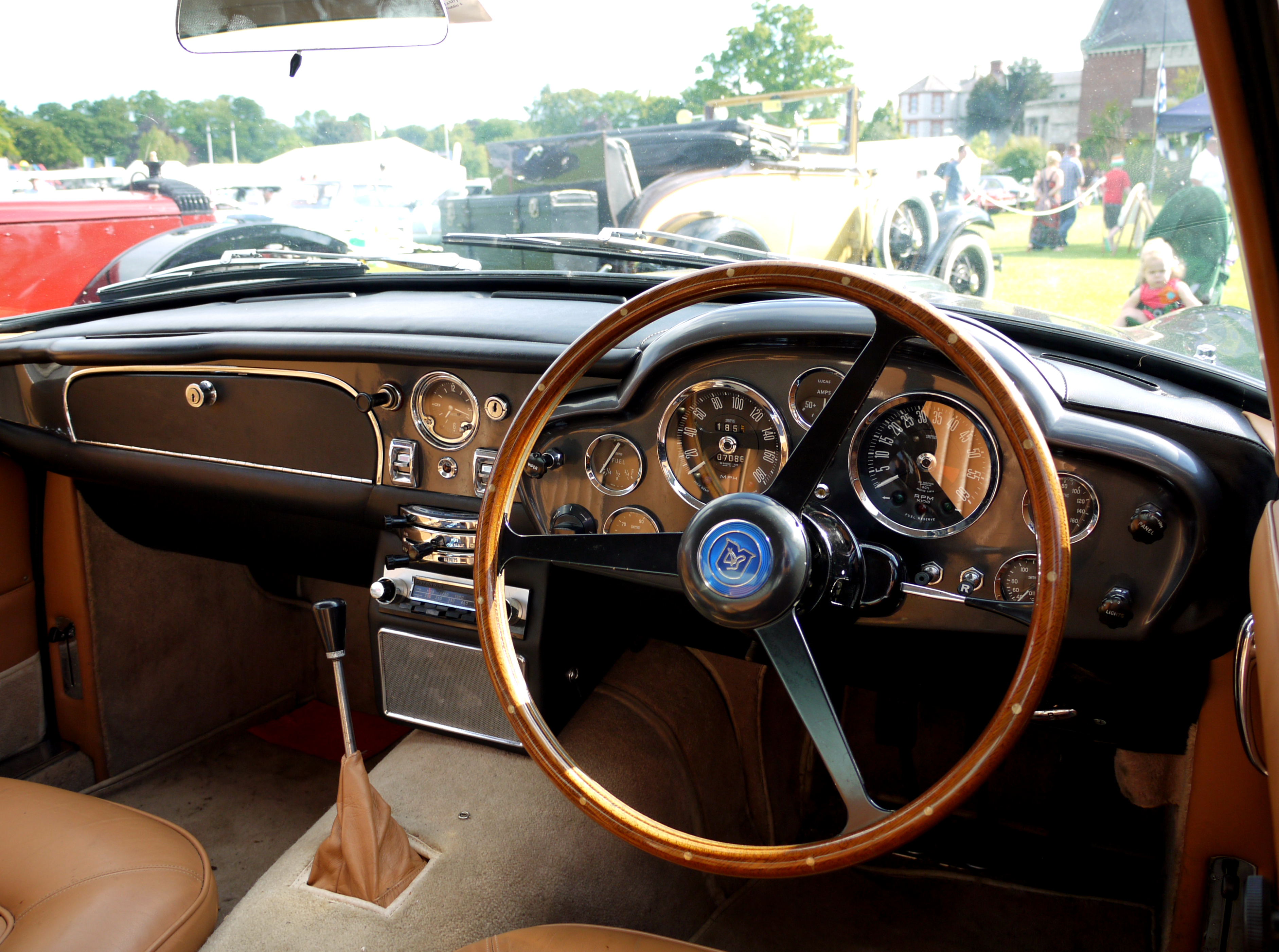 1967 Aston Martin DB6 interior.